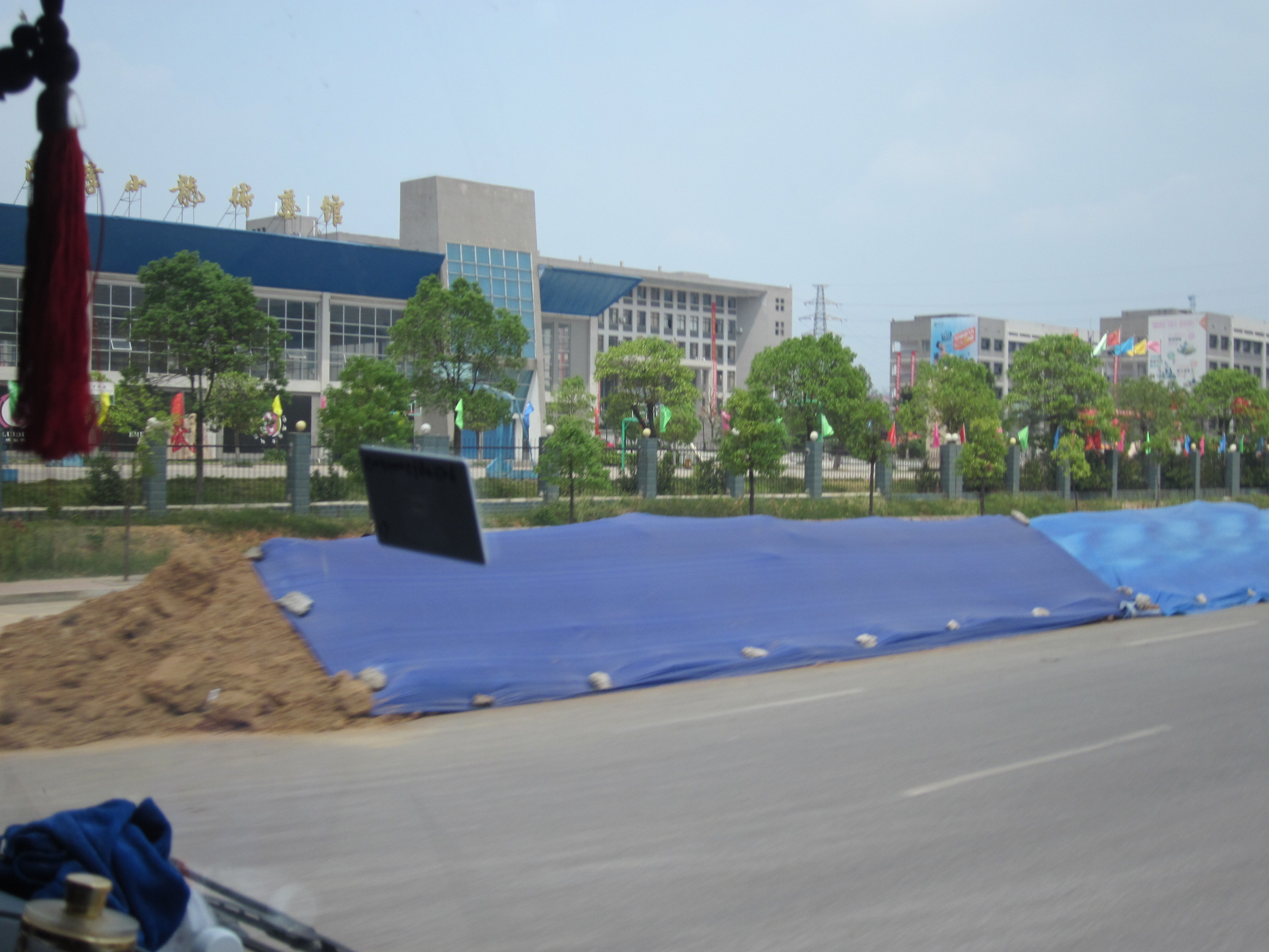 Xiaoxiang Vocational College, located in Loudi City, Hunan Province.